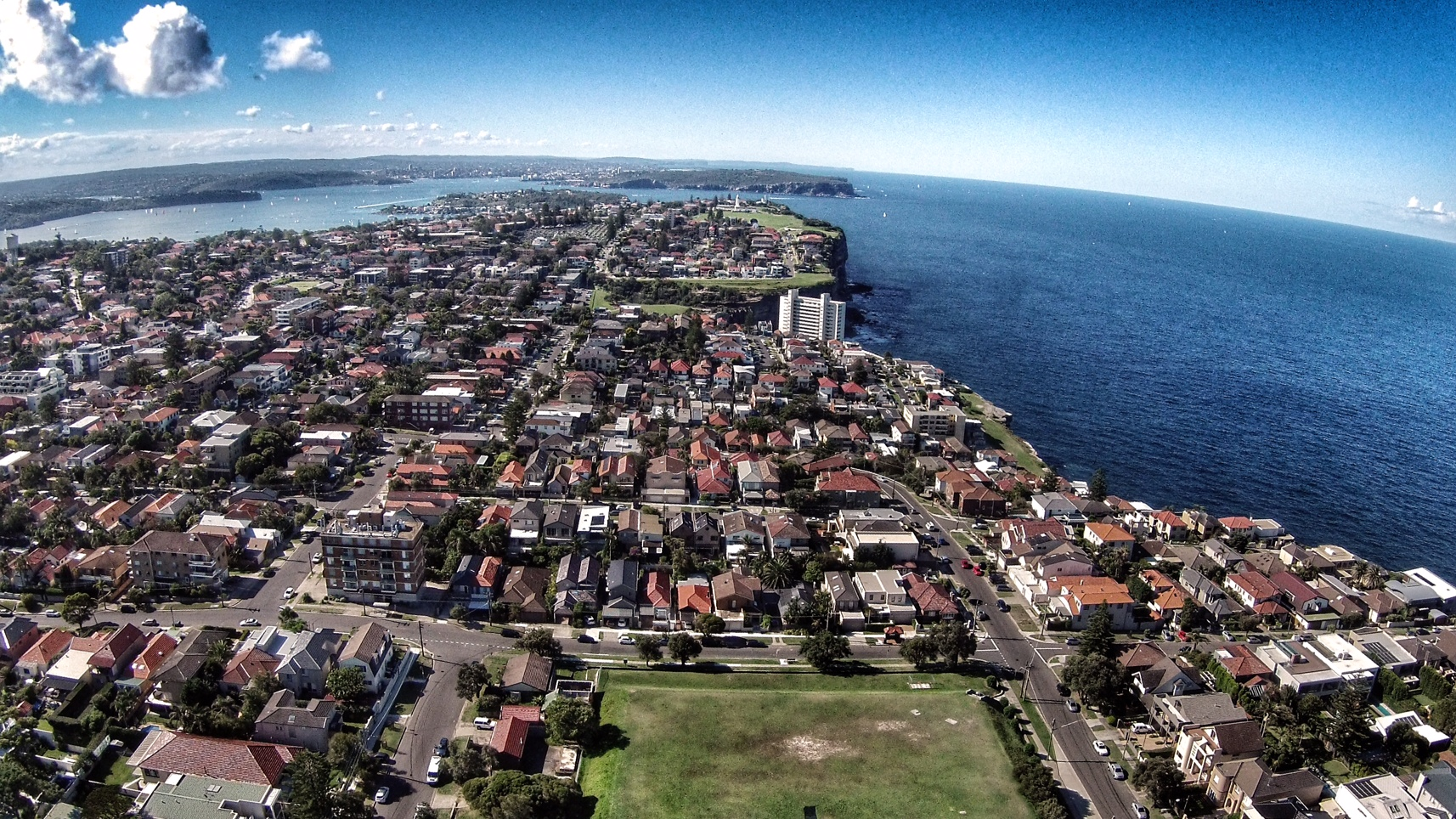 Entrance to harbor and North Head from Dover Heights